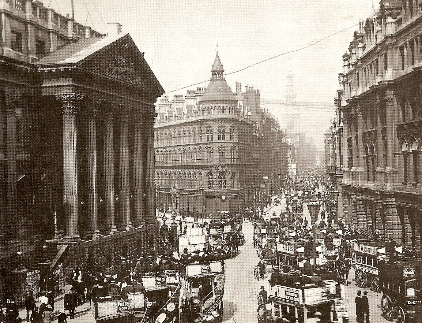 A view of Cheapside, Queen Victoria Street and in the foreground Mansion House